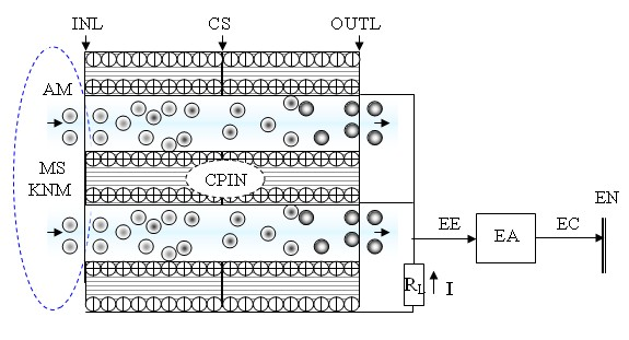 Molecular power 45. Wind power device for the production of electric current by step-by-step shock ionization